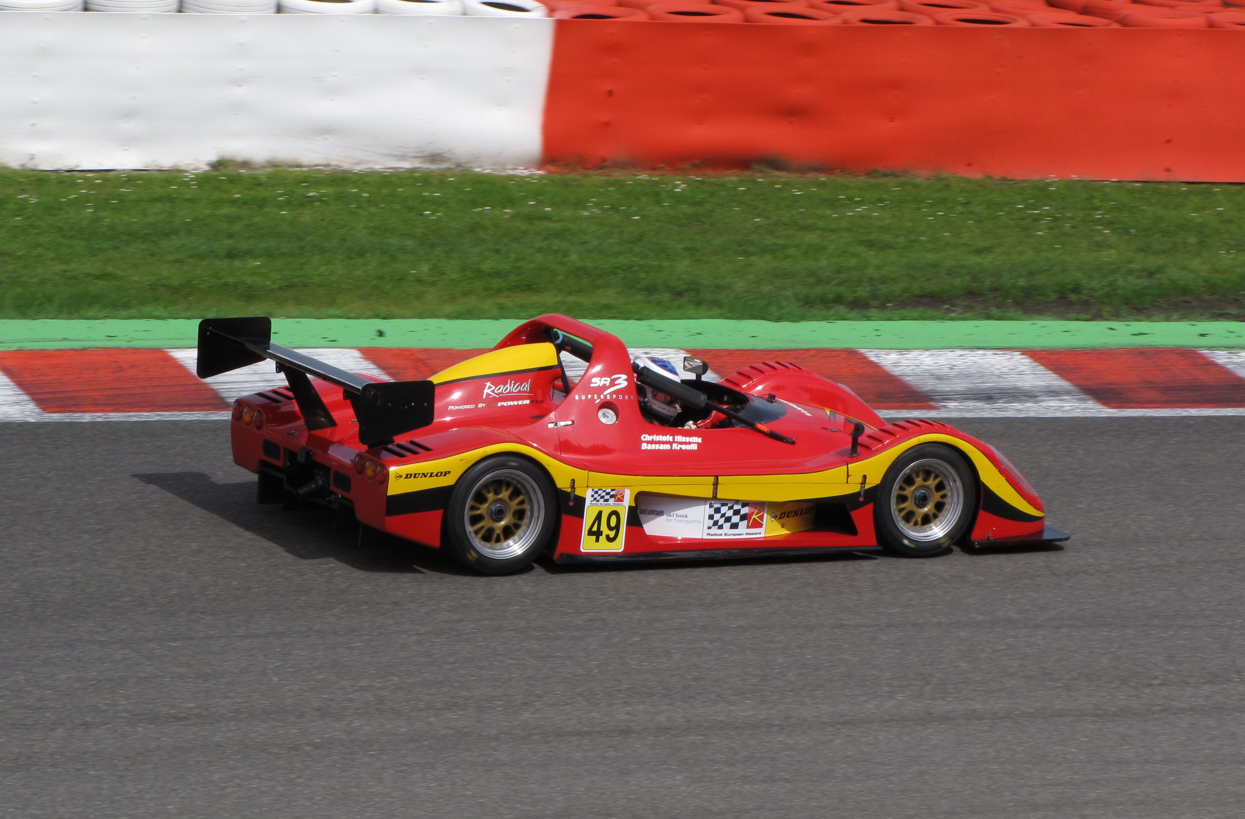 Radical SR3 of the Radical European Masters at Spa 2009.